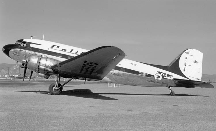 DC3CalifCentral